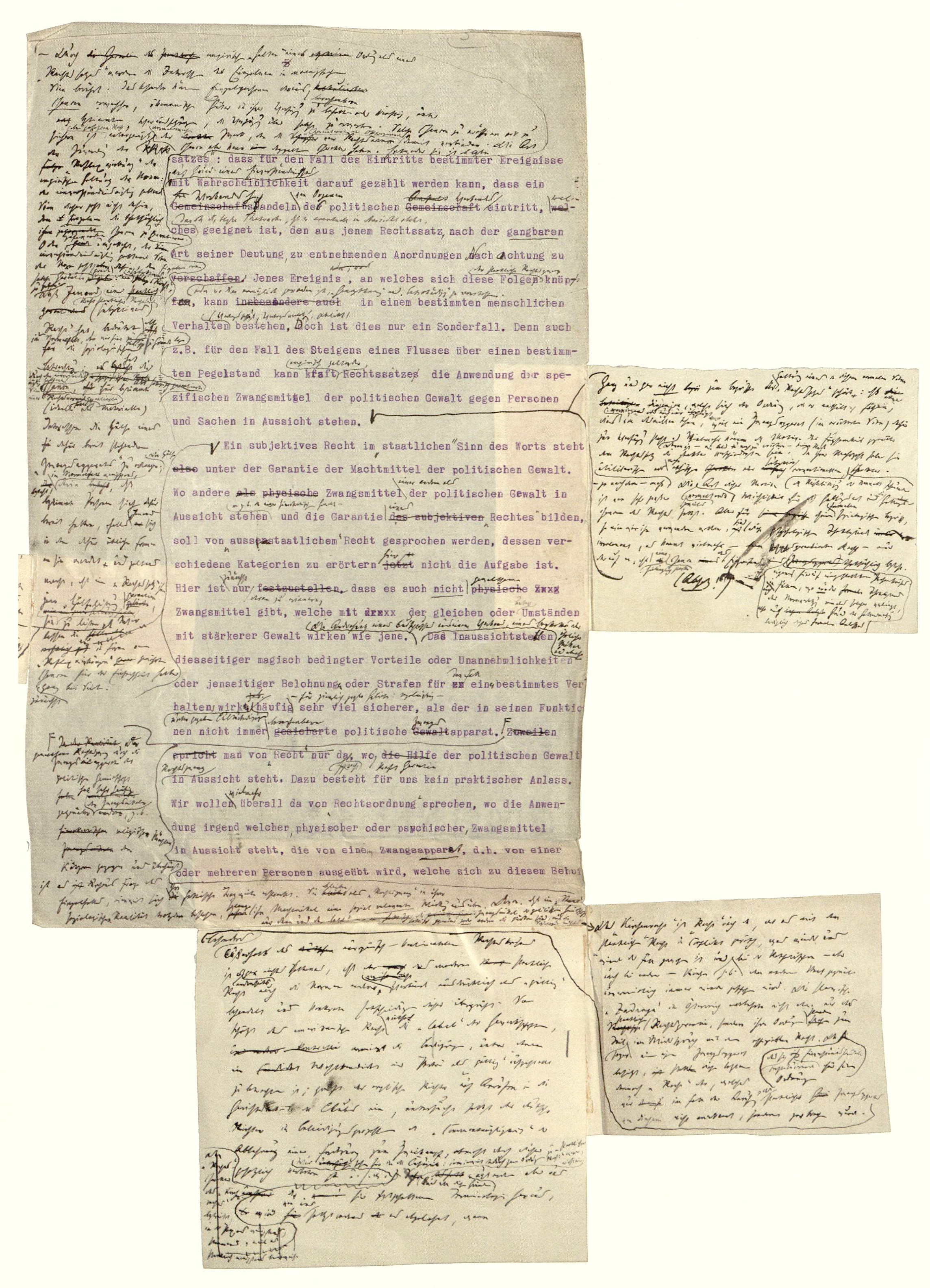 Manuscript with lots of revisions, Part of Max Weber: Rechtssoziologie, part of Wirtschaft und Gesellschaft, revised several times until shortly before his death